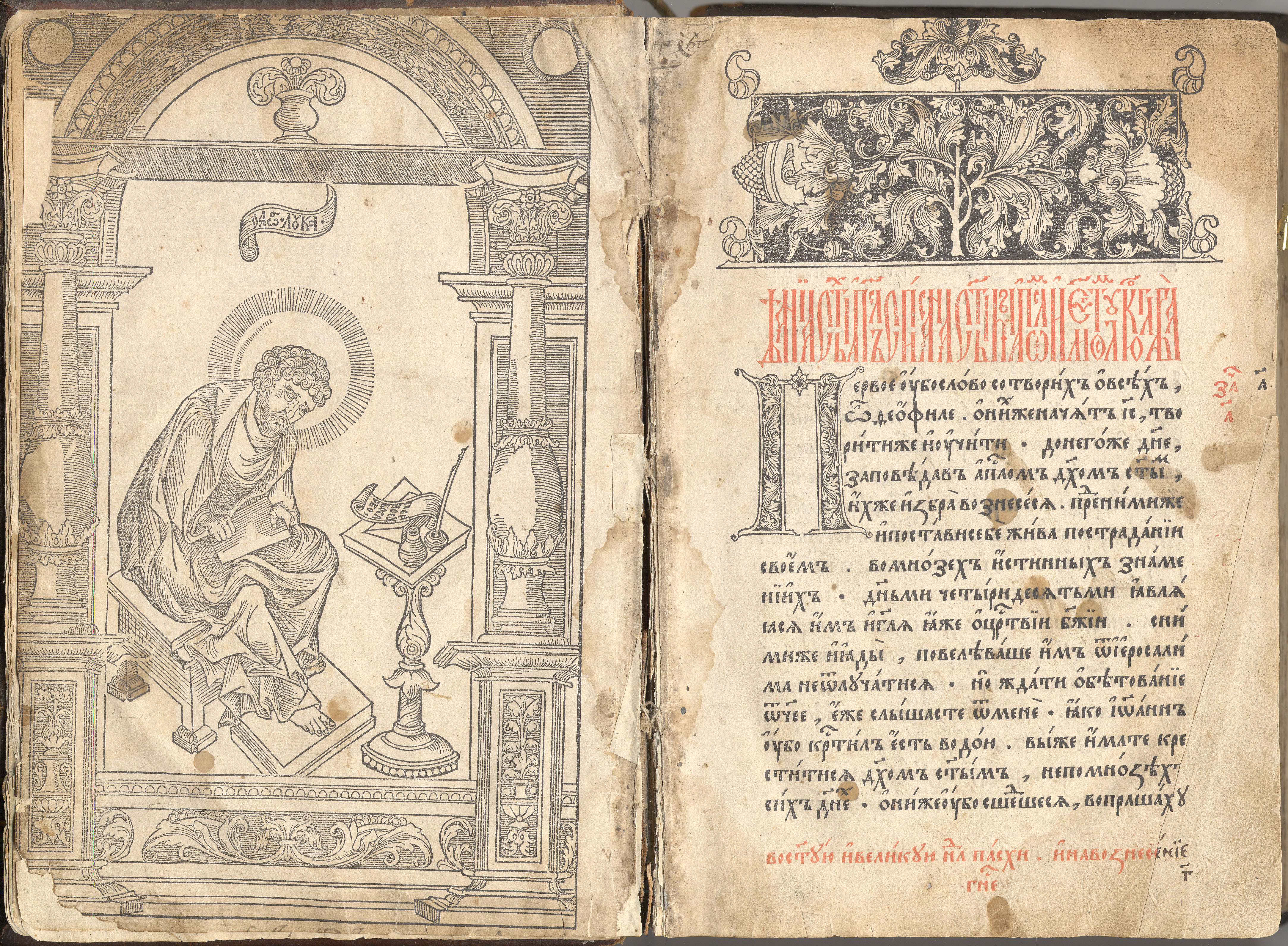 Page-spread from "Apostol" printed by Ivan Fyodorov and Pyotr Mstislavets in 1564/1564 at Moscow. Copy of the Siberian Department of Russian Academy of Sciences.